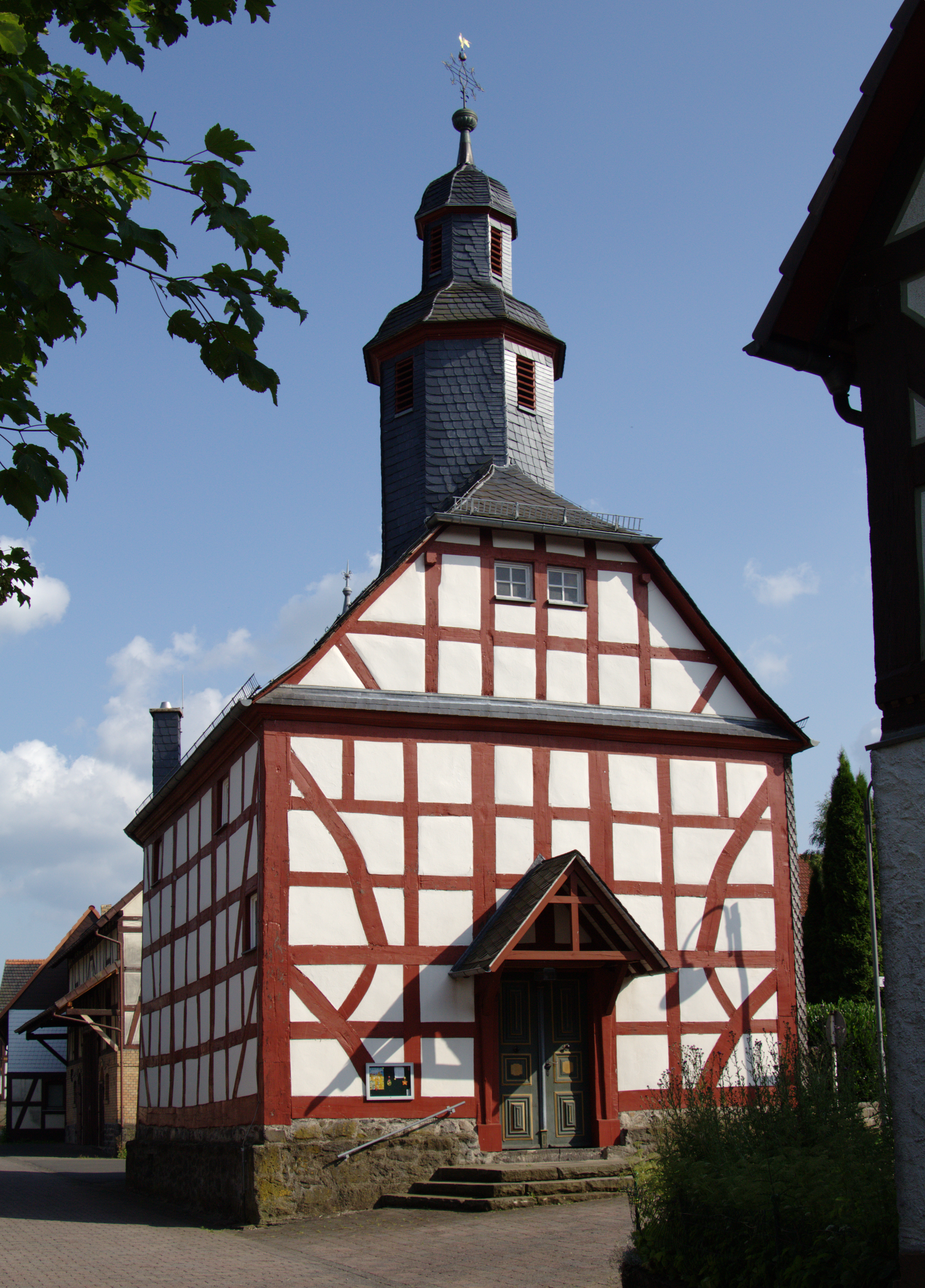 Half-timbered church in Ulrichstein, Unter-Seibertenrod Eichwaldstrasse, Hesse, Germany